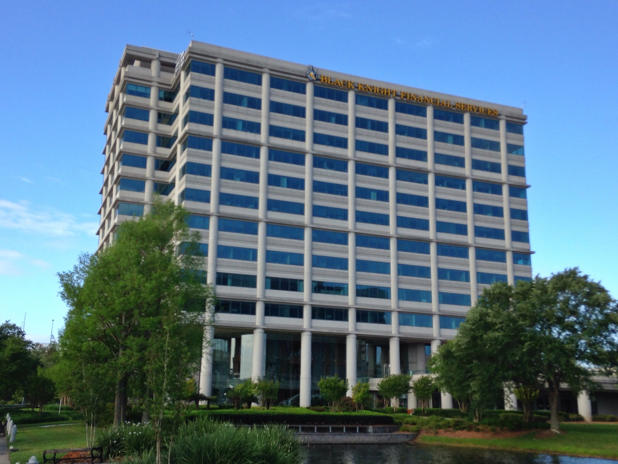 FIS Headquarters, Jacksonville, FL